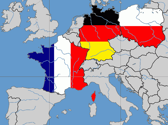 Weimar Triangle